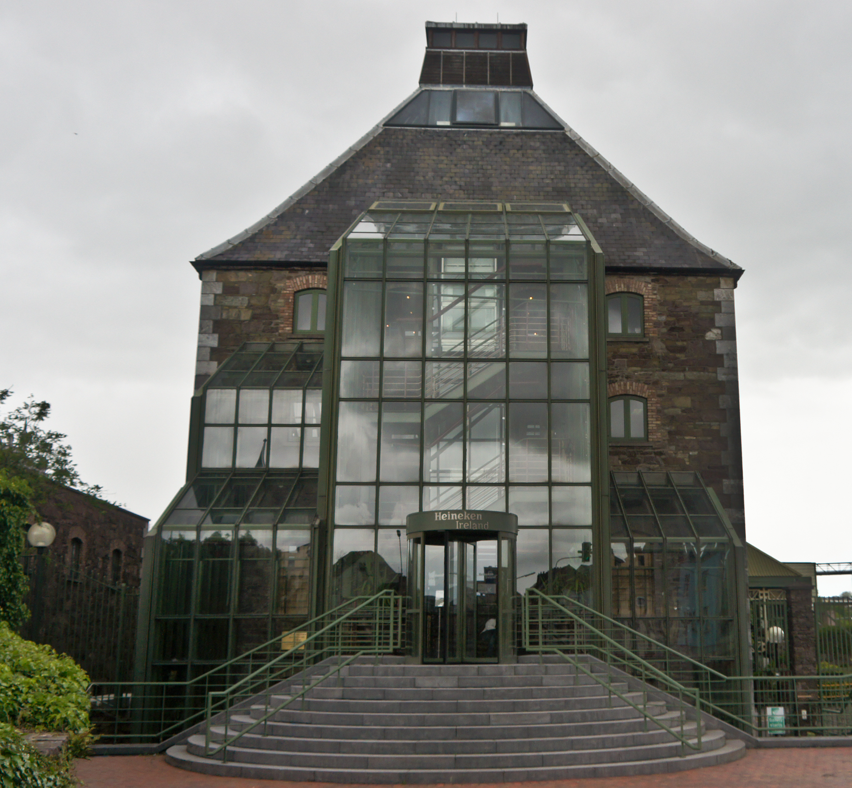 Murphy's Brewery was a brewery founded in Cork, Republic of Ireland in 1856. It was known as Lady's Well Brewery until it was purchased by Heineken International in 1983, when the name changed to Murphy Brewery Ireland Ltd. The name of the brewery was recently changed to Heineken Brewery Ireland, Ltd. The brewery produces Heineken, Murphy's stout and other Heineken products for the Irish market.